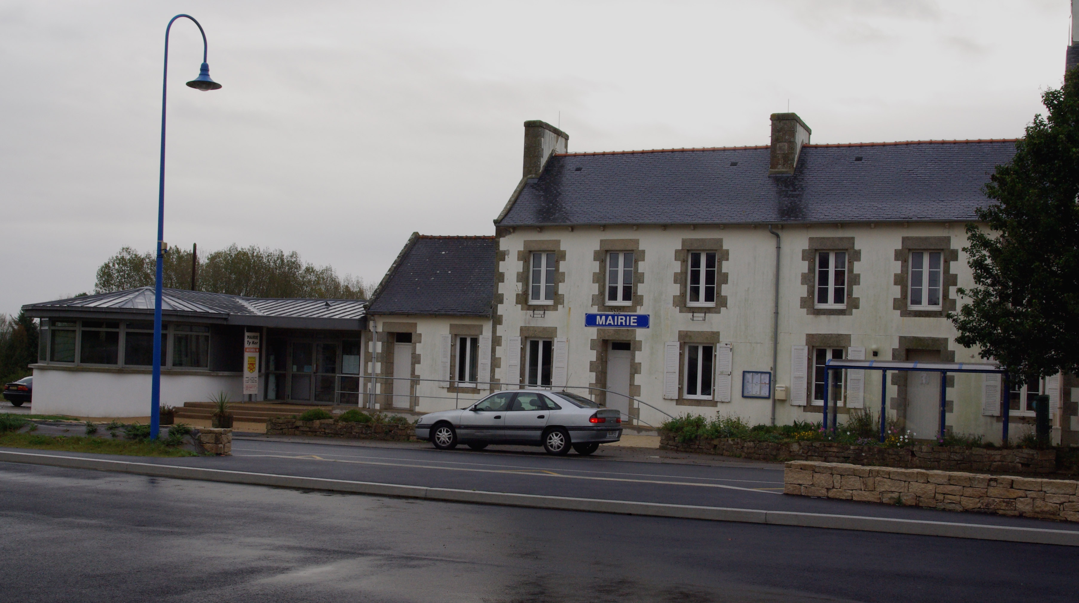 Mayor's office of Tréogat